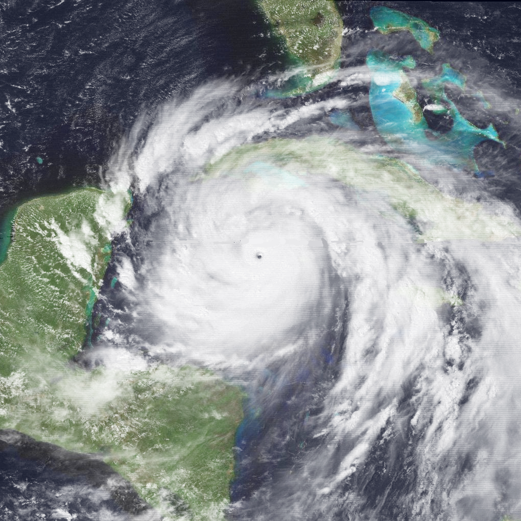 Hurricane Gilbert near peak intensity in the northwest Caribbean Sea on September 13, 1988